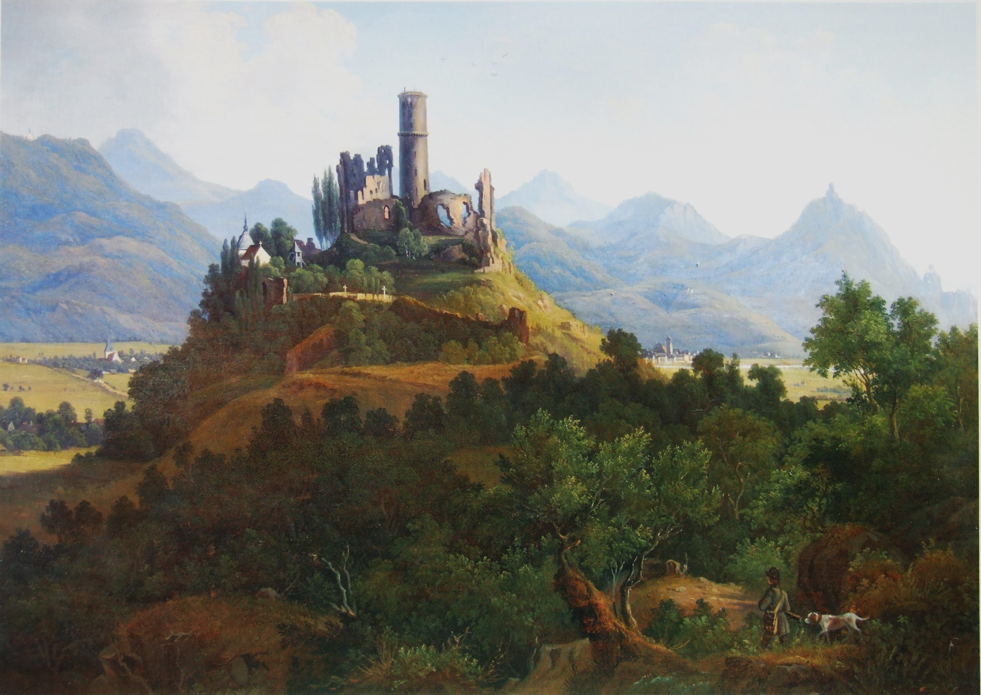 Oilpainting „Blick auf die Godesburg und das Siebengebirge“ by Karl Bodmer about 1836, Sammlung RheinRomantik, Bonn